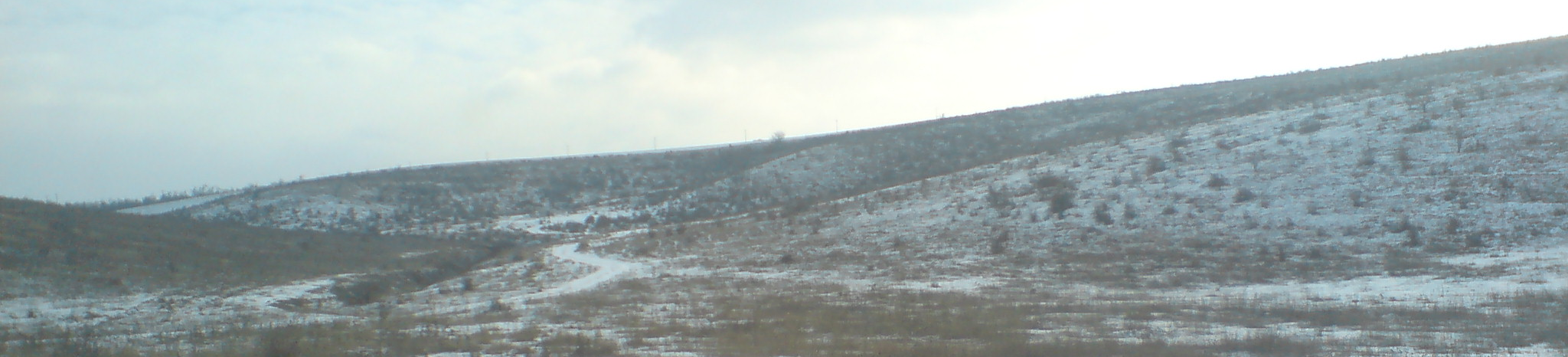 Malorosha's hills